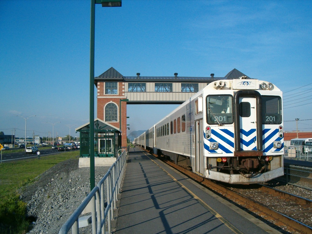 Saint-Basile-Le-Grand station of the Montreal (Canada) - Saint-Hilaire suburban train line